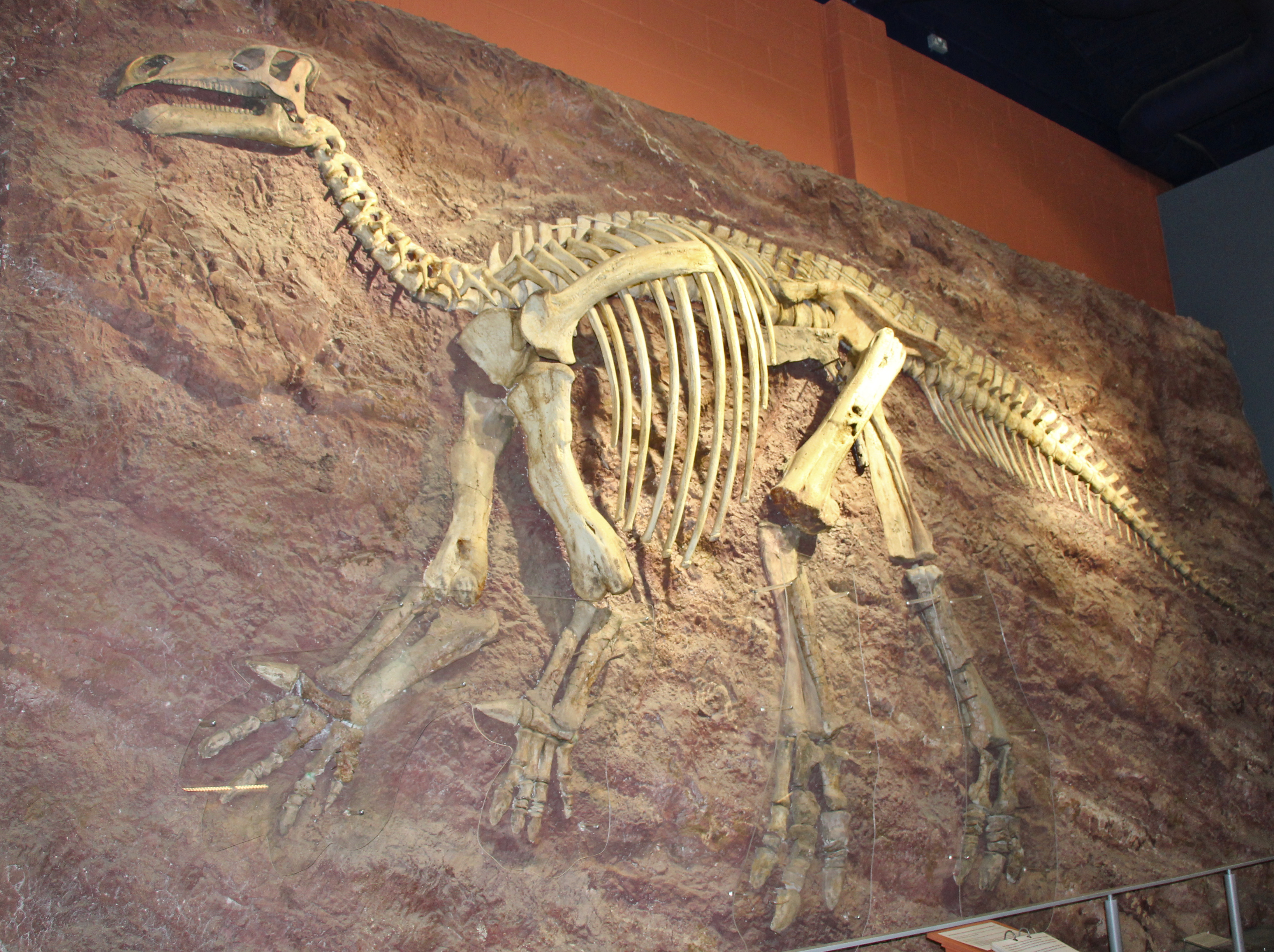 Pink Iggy, Iguanodon skeleton, Dinosaur Isle Museum, Sandown, Isle of Wight, UK